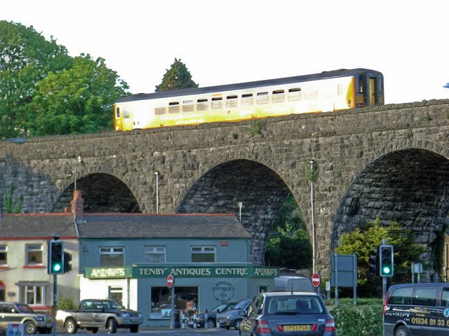 Viaduct at Tenby The evening sun reflects off 153303 as it continues the journey east.